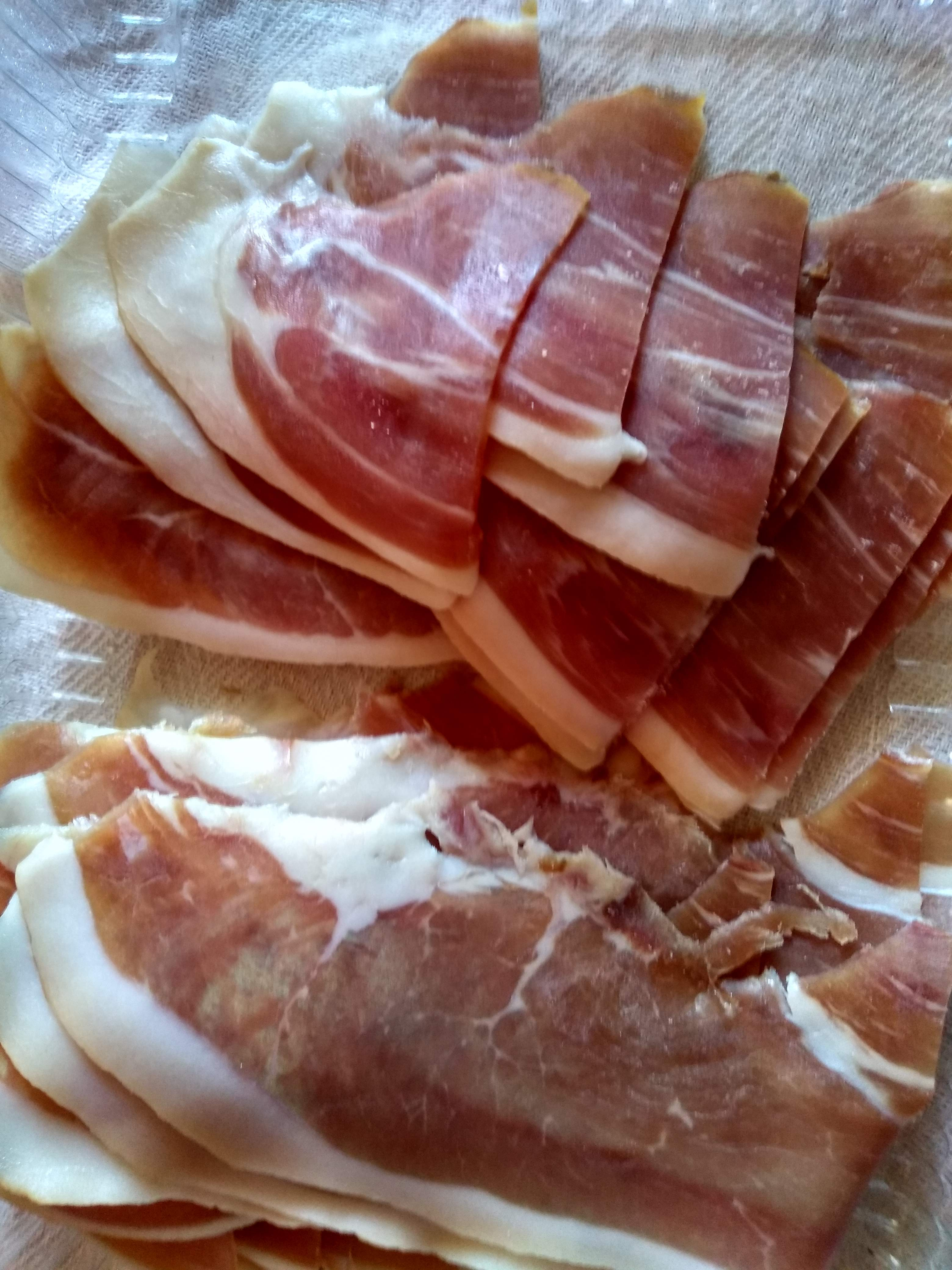 Njeguško pršut (prosciutto) from Montenegro